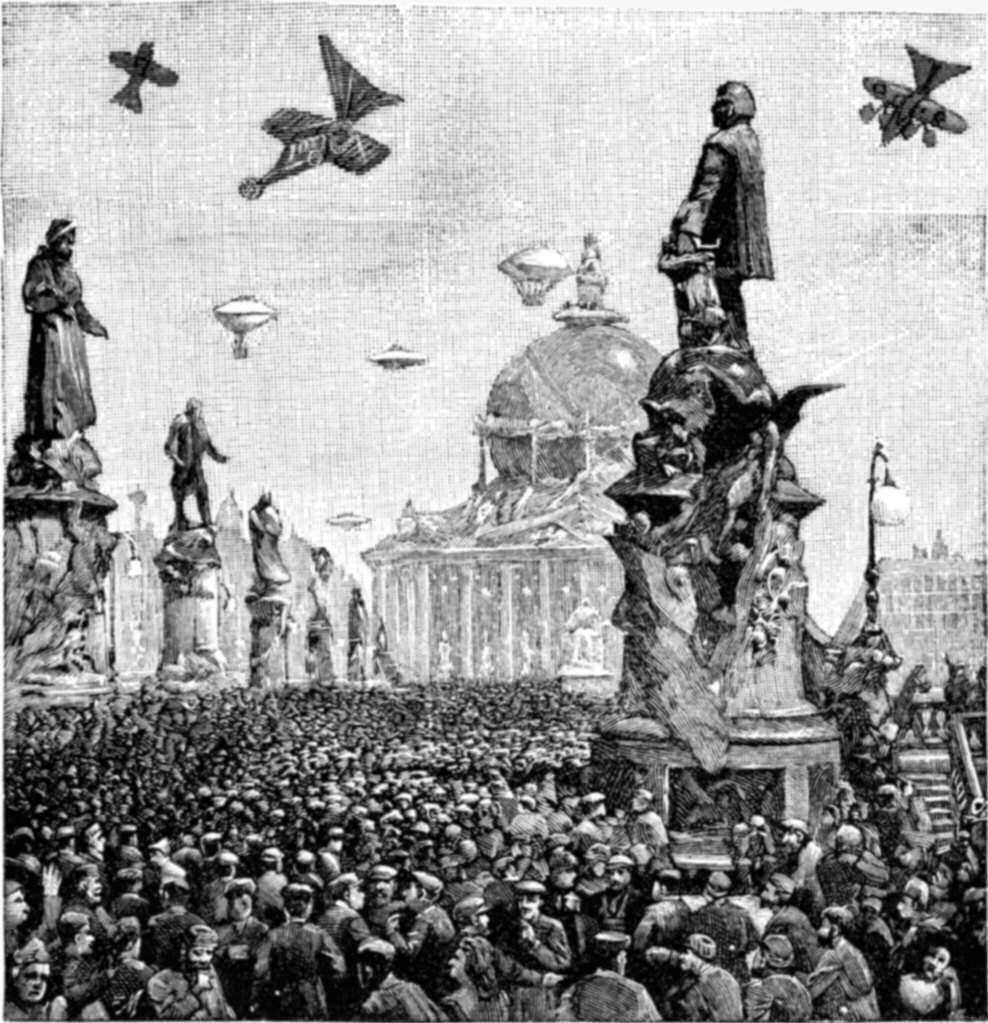 Paris in a future.